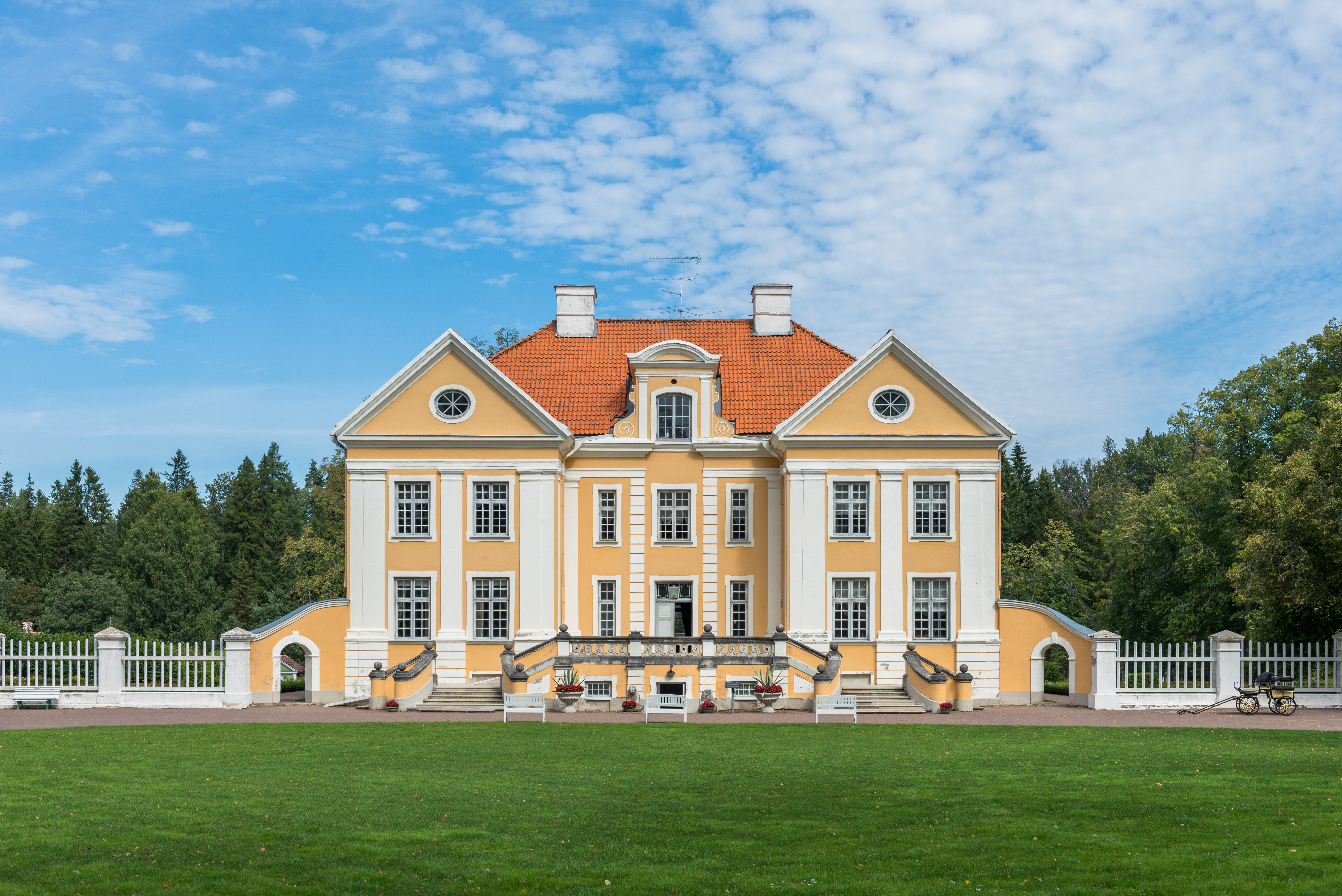 Palmse is one of the most grandiose manor house ensembles in Estonia and it was the first manor ensemble to be restored in full amongst the beautiful nature of Lahemaa National reserve.